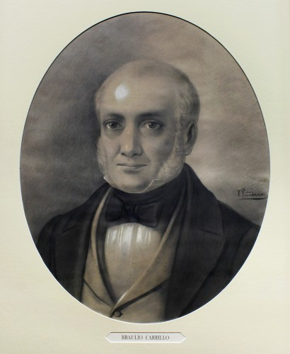 Braulio Carillo, president of Costa Rica 1835-1837 & 1838-1842